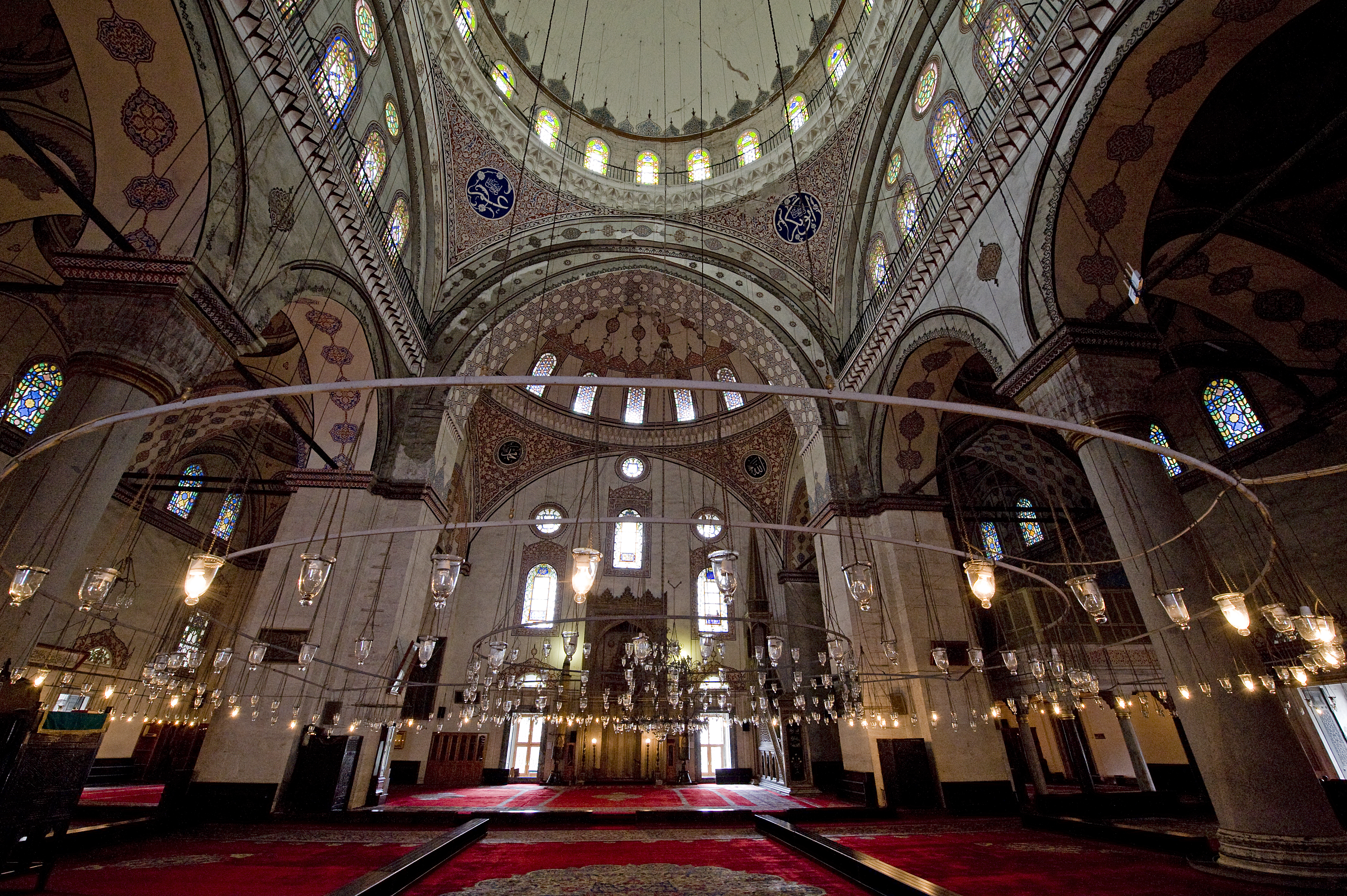 Taken with a wide angle lens